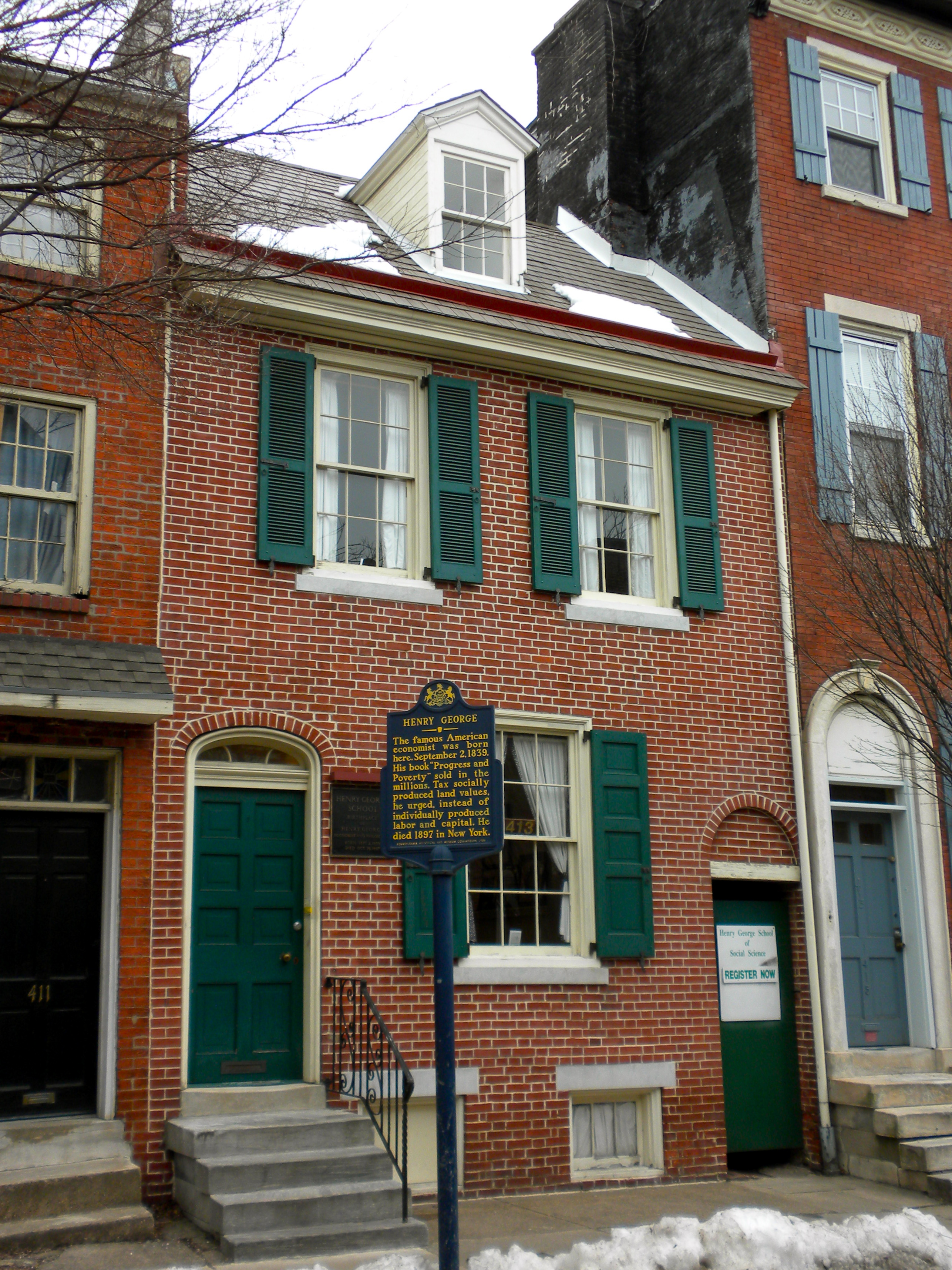 The birthplace of economist-philosopher Henry George at 413 South 10th Street, in Center City, Philadelphia. Pennsylvania State Historical Marker in front of house (should be readable on photo). On the NRHP 39°56′39.3″N 75°9′29.5″W